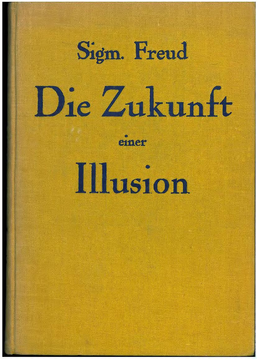 Cover of Freud, Die_Zukunft_einer_Illusion 1st ed.